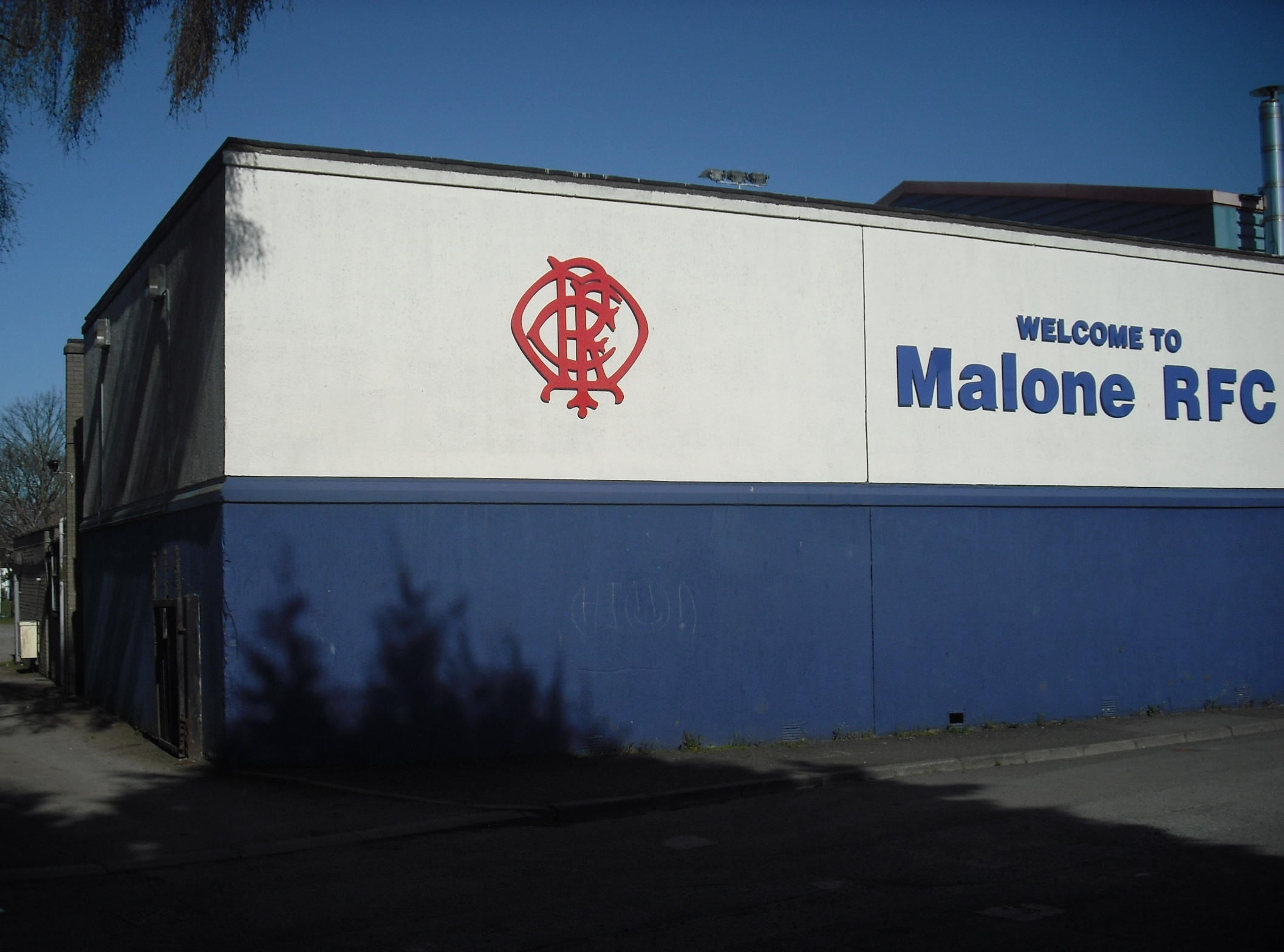 Gibson Park Avenue, the home of Malone Rugby Club